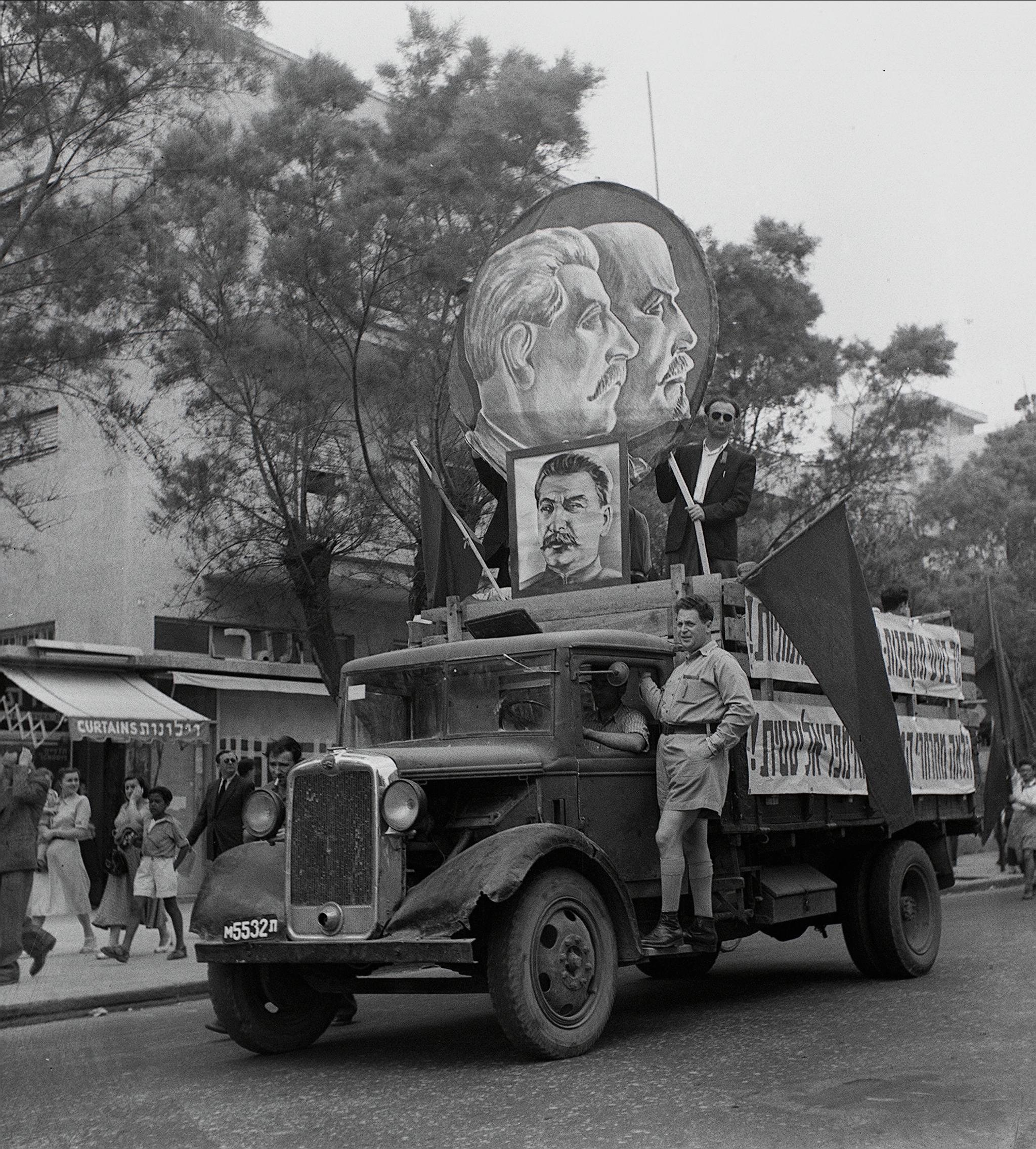 A truck with the faces of Soviet Communist leaders Lenin and Stalin stuck to it, at the labor day (1 may 1949) parade held in Tel Aviv.